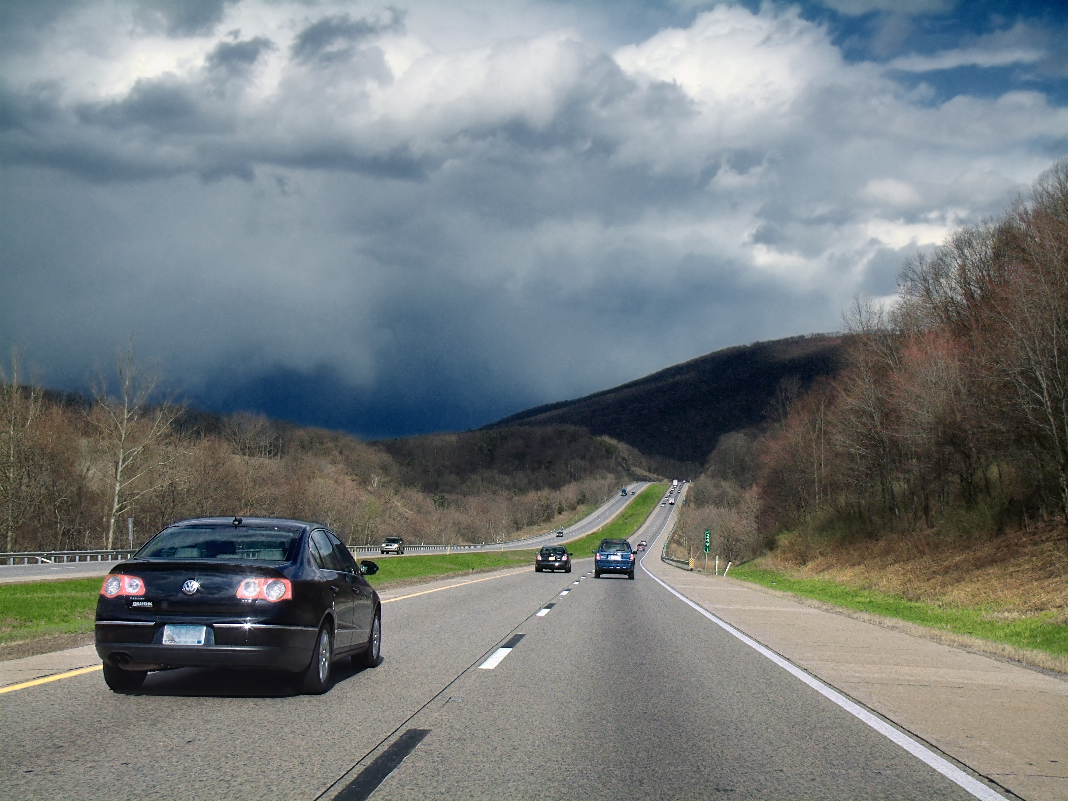 Interstate 80, Luzerne County, with an isolated rainstorm near Nescopeck Mountain.